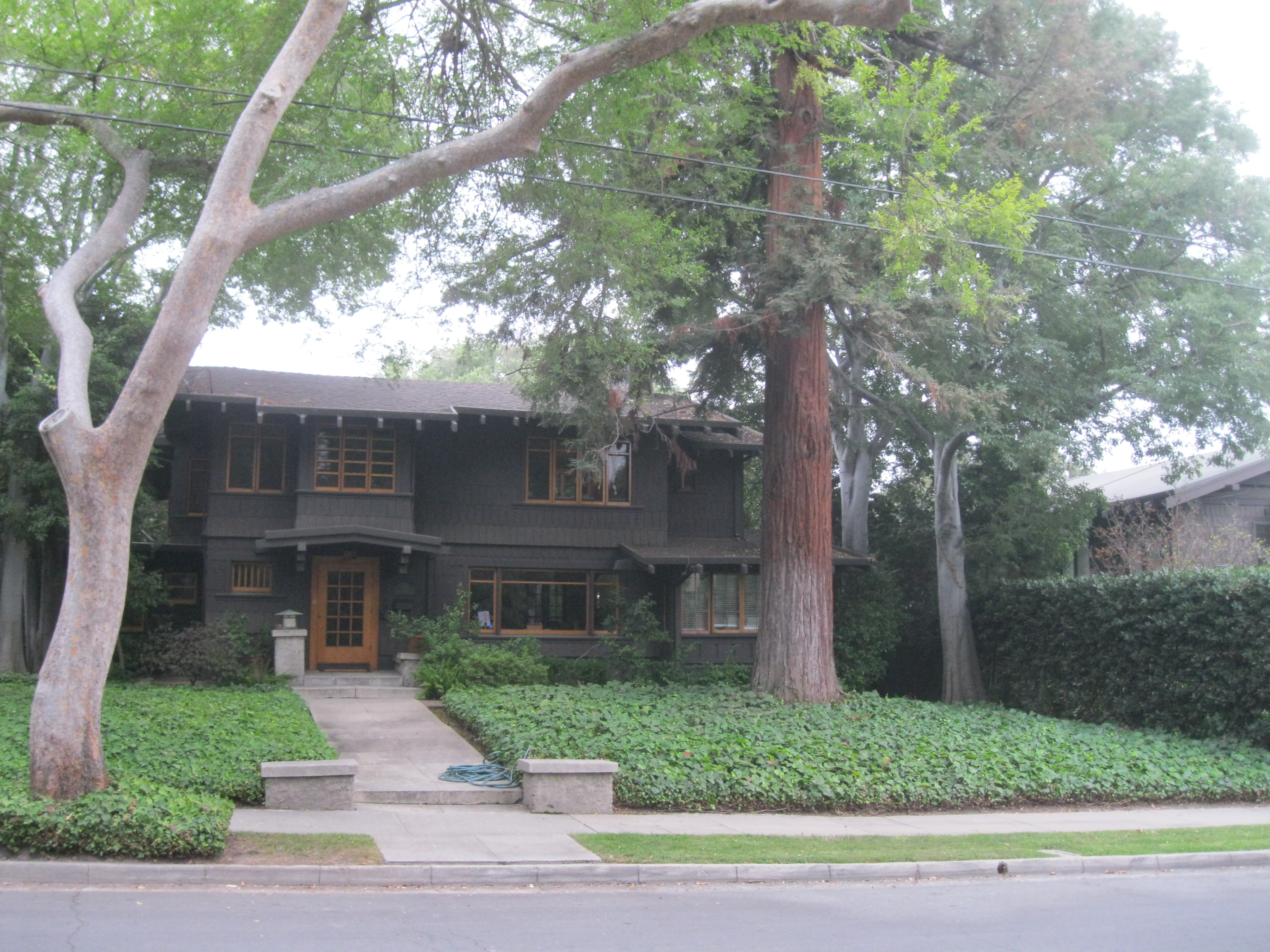 Lower Arroyo Seco Historic District in Pasadena, CA, listed on the National Register of Historic Places.